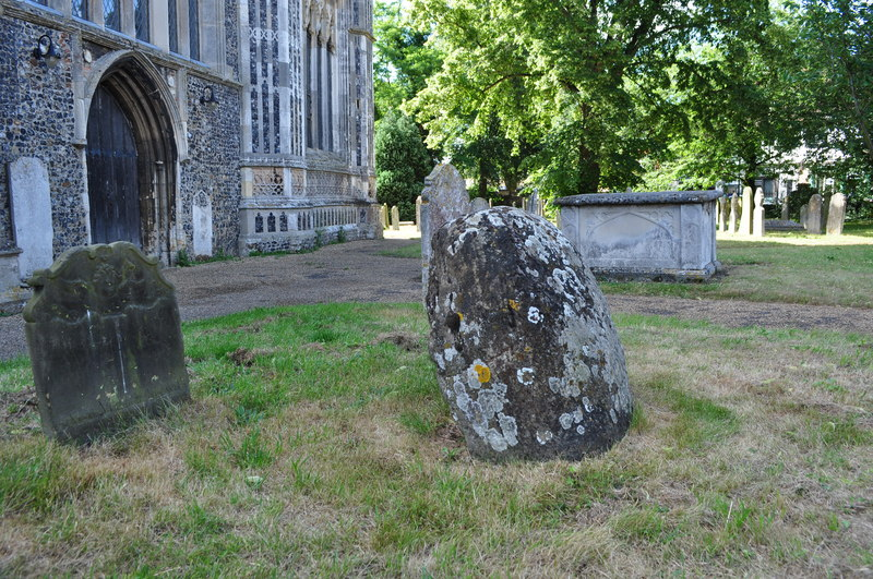 The Druids Stone - Glacial Erratic